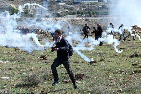 Funeral of Mustafa Tamimi turned violent and Israeli soldiers fired tear gas canisters. Mustafa Tamimi, a 28 year old Palestinian taxi driver, was fatally shot by Israeli forces in 9 December 2011 during a weekly protest in Nabi Salih, West Bank.